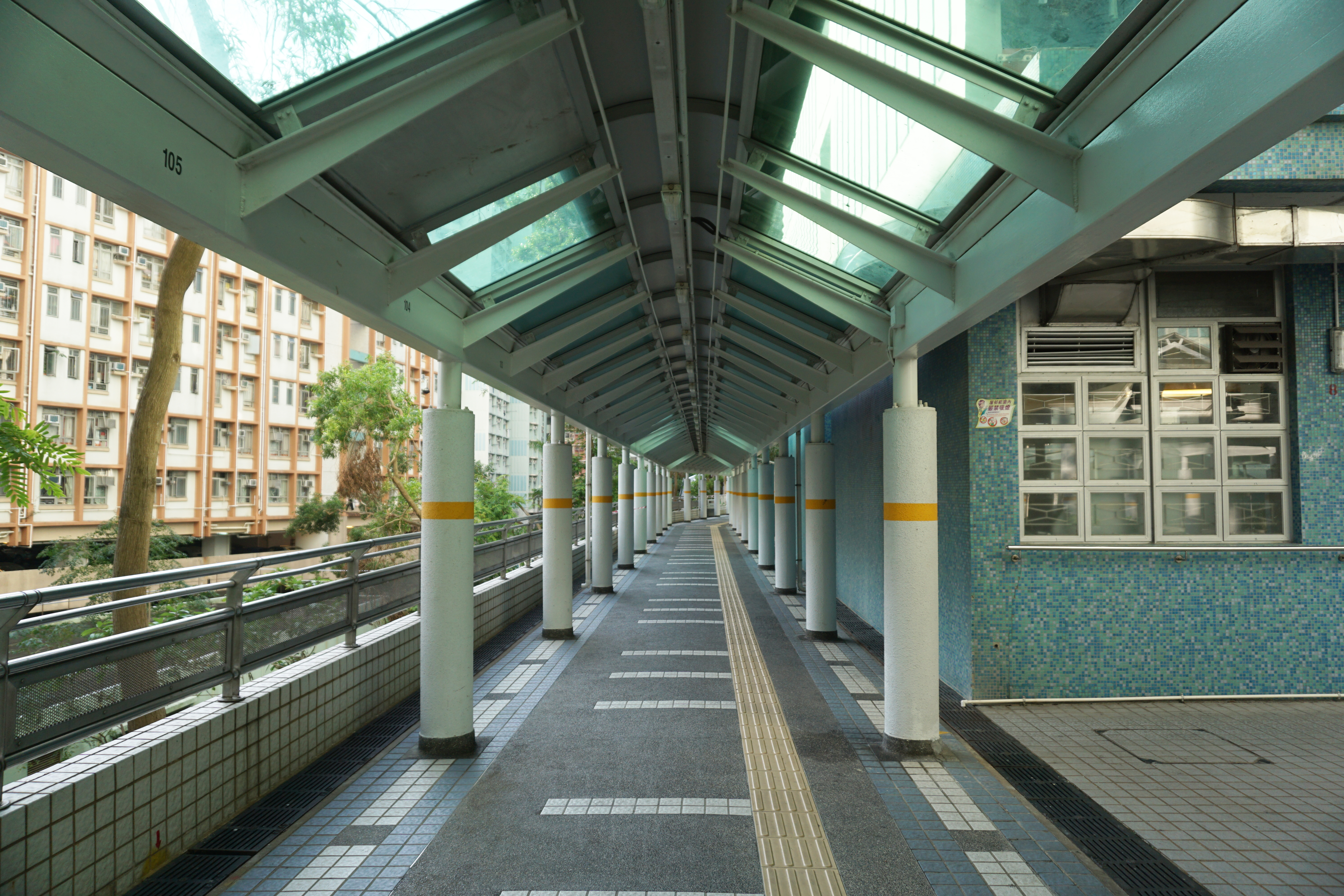 Tsz Ching Estate in Tsz Wan Shan, Hong Kong.